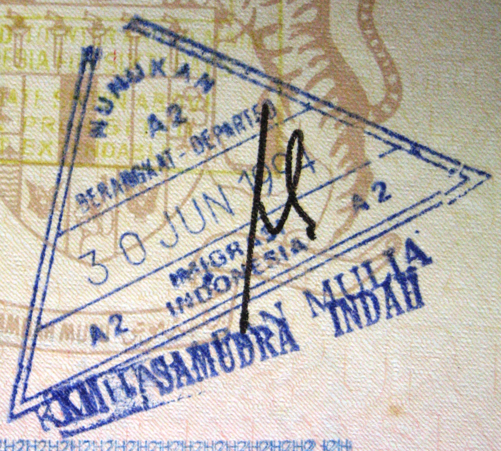 Passport exit stamp from Nunukan, East Kalimantan, Indonesia